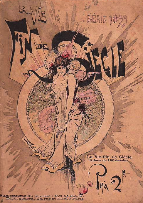 Front cover of La Vie Fin de Siècle, album with 150 sketchs, série 1899, 2 francs.